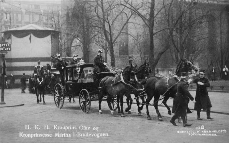 The wedding of Olav V of Norway and princess Märtha of Sweden in 1929